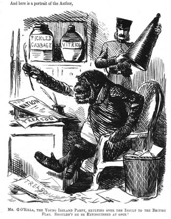 A satirical cartoon, from the Punch, showing an Irishman depicted as an ape.